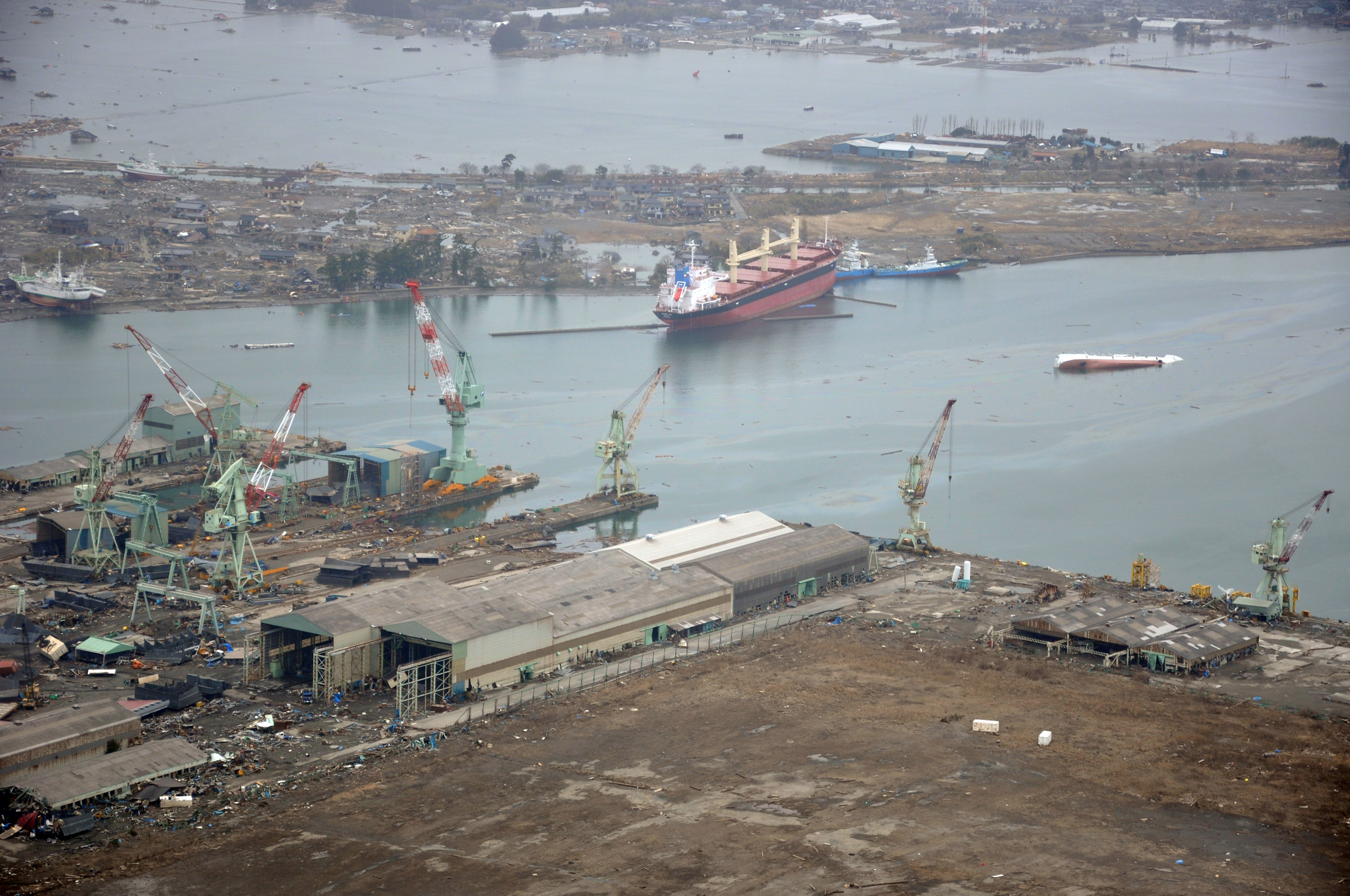 NORTHERN JAPAN (March 20, 2011) An aerial view of ships washed ashore and overturned at the port of Ishinomaki near the Japan Air Self-Defense Force Matsushima Air Base. The air base is serving as a refueling station for CH-46 Sea Knight helicopters assigned to Marine Medium Helicopter Squadron (HMM) 265 as they conduct humanitarian assistance missions in Northern Japan as part of Operation Tomodachi. (U.S. navy photo by Mass Communication Specialist 1st Class Ben Farone/Released) An aerial view of port in Ishinomaki, Miyagi, Japan. This image is taken from the sky in NIshihamachou area of Ishinomaki City toward inland. The upper part of image is not a sea, there is a flooded land.